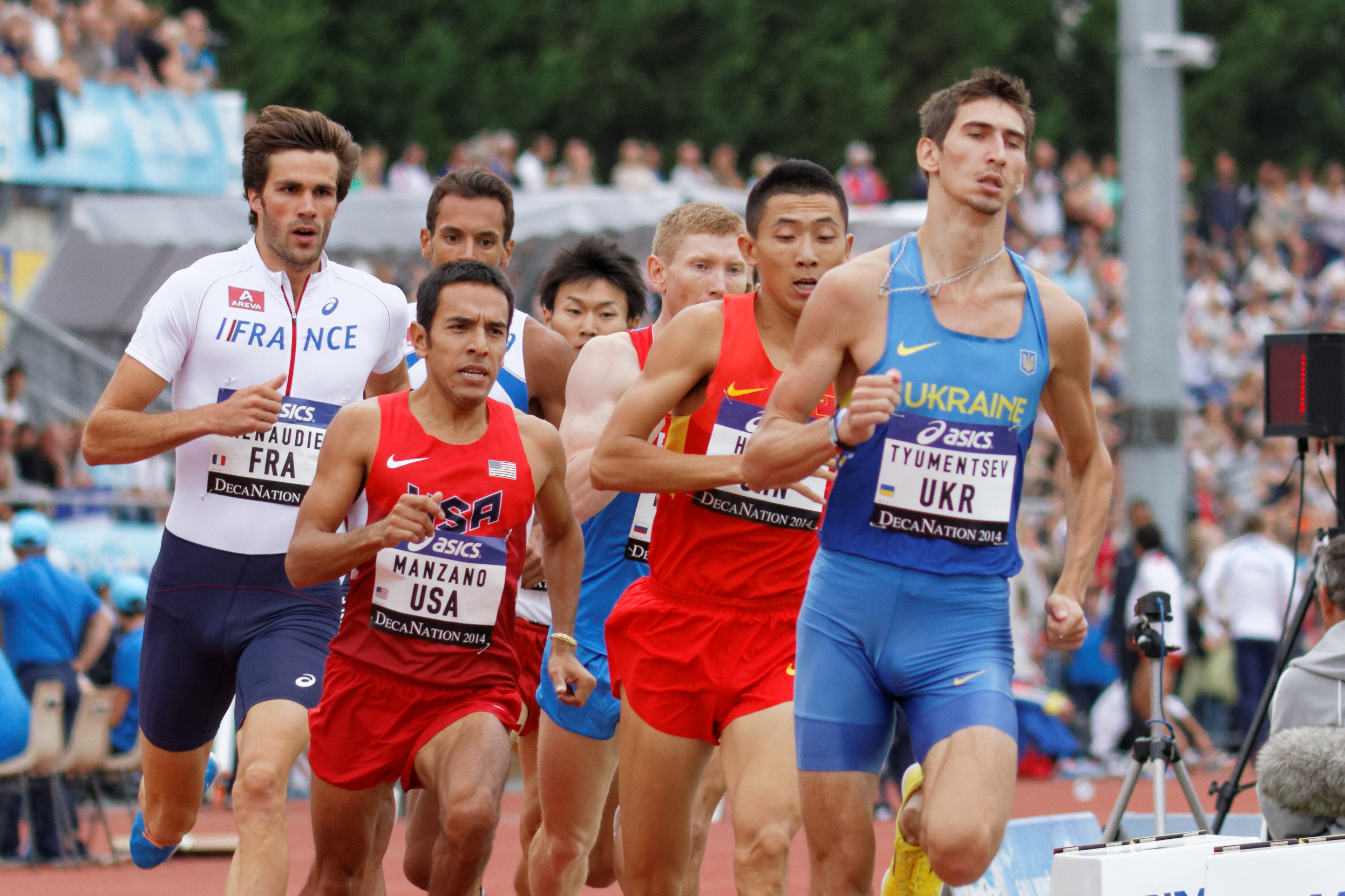 DécaNation 2014